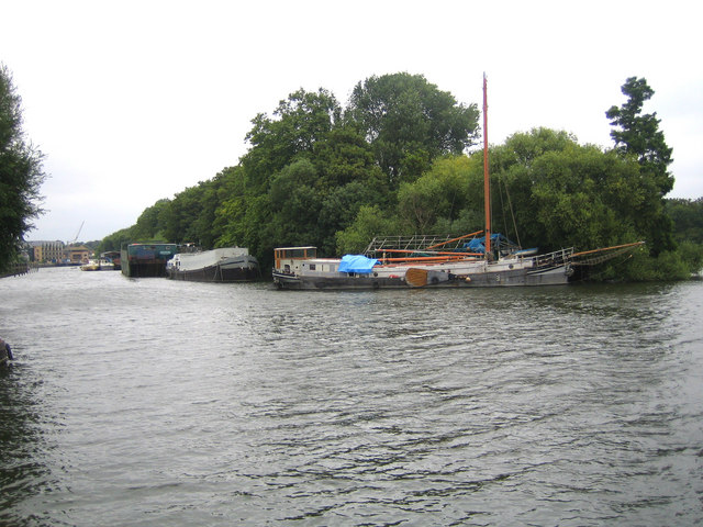 River Thames at Isleworth Ait Isleworth Ait is one of several islands in this reach of the River Thames. The 3.5 hectare island is uninhabited and only accessible by boat. It is a Local Nature Reserve (LNR) managed by the London Wildlife Trust, and their website page describing the island and its natural habitat is here The whole of the island is contained within this grid square, and this is the southern or upstream tip. The "paddle" on the side of the boat moored on the island is a leeboard, which is a type of keel that can be lowered into the water to provide sideways stability whilst the vessel is under away.